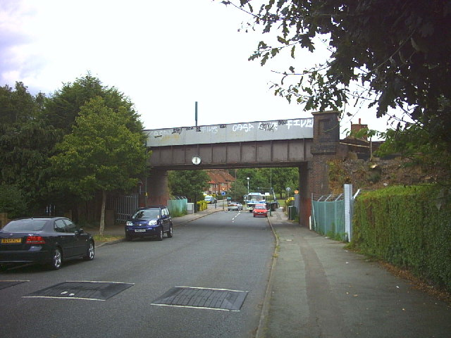 Love Lane Railway Bridge, near Morden. On the line from Sutton to Wimbledon.